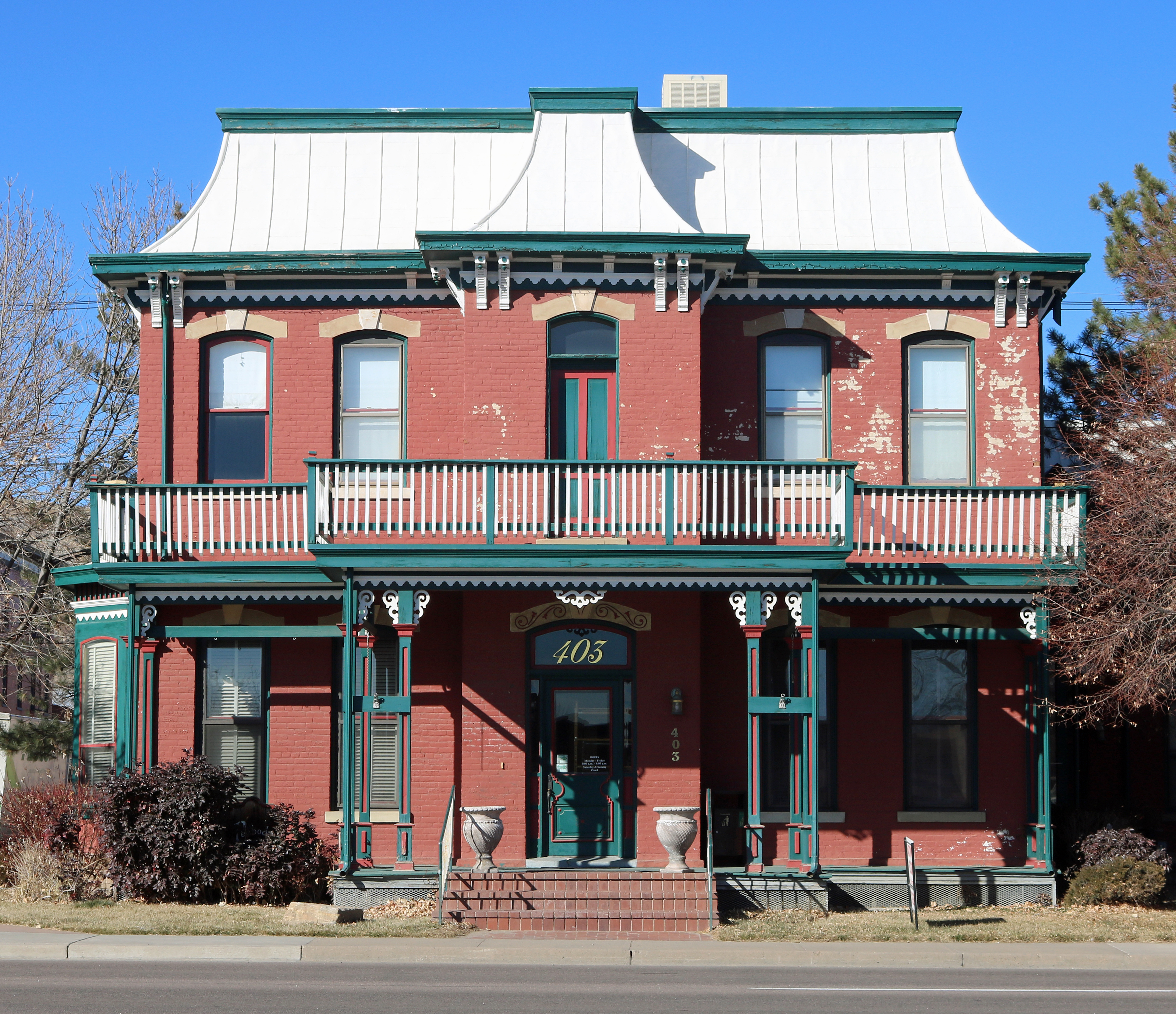 The Peabody Mansion, located at 403 Royal Gorge Boulevard in Cañon City, Colorado. The property now functions as one of the offices of the Cañon City Chamber of Commerce.